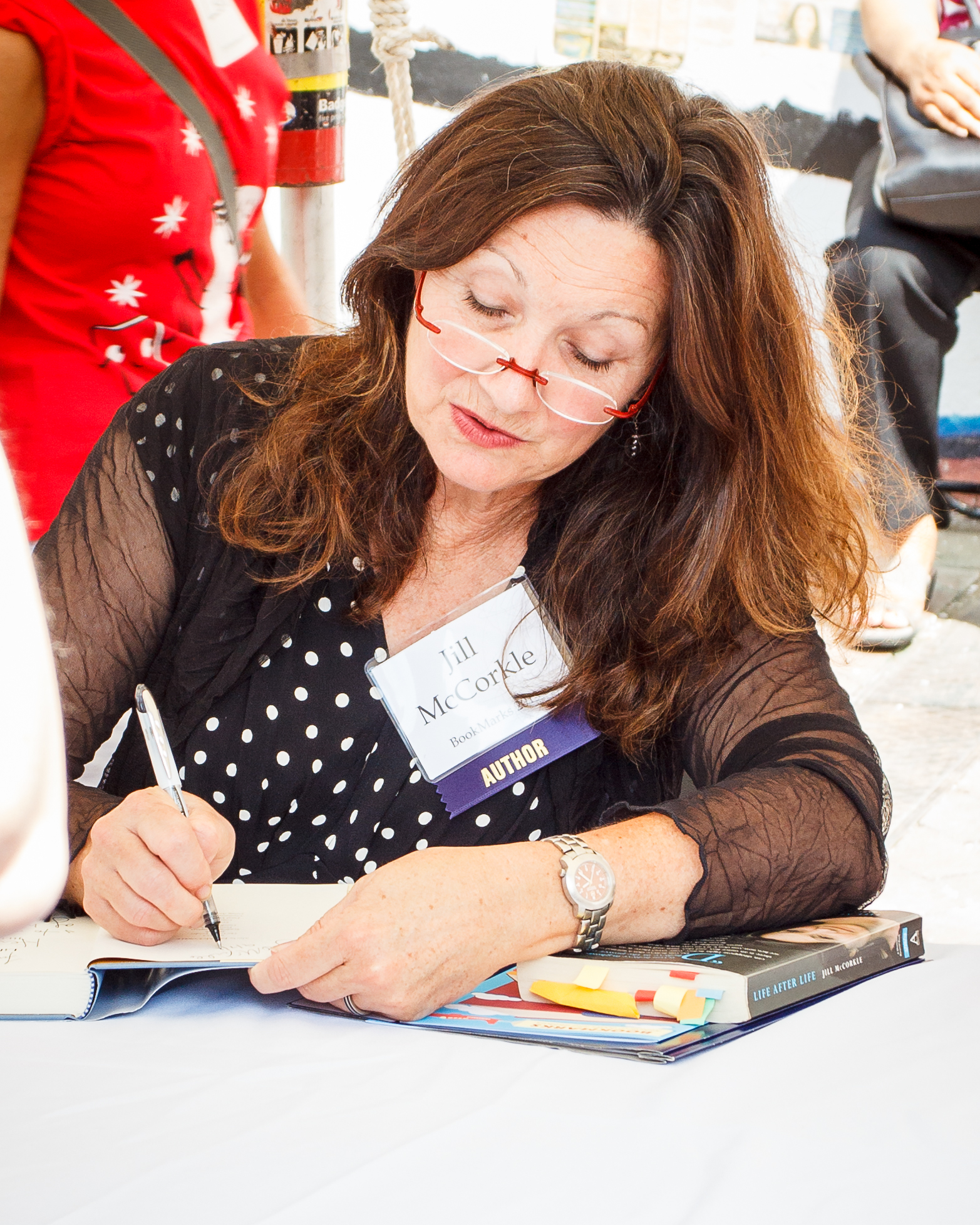 Jill McCorkle at book signing